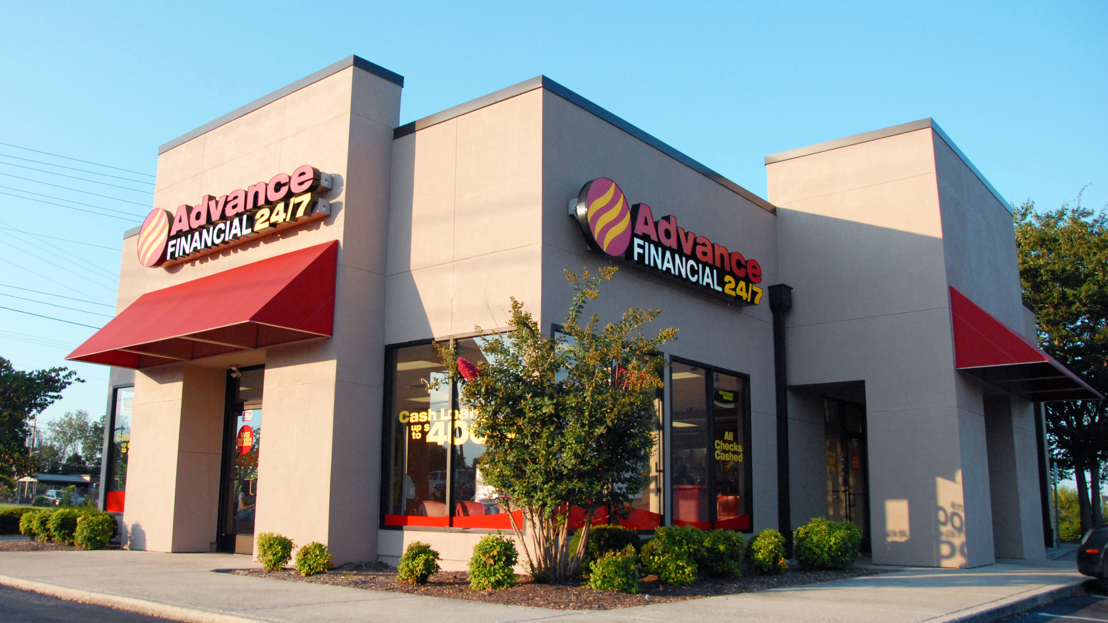 Advance Financial Store 35